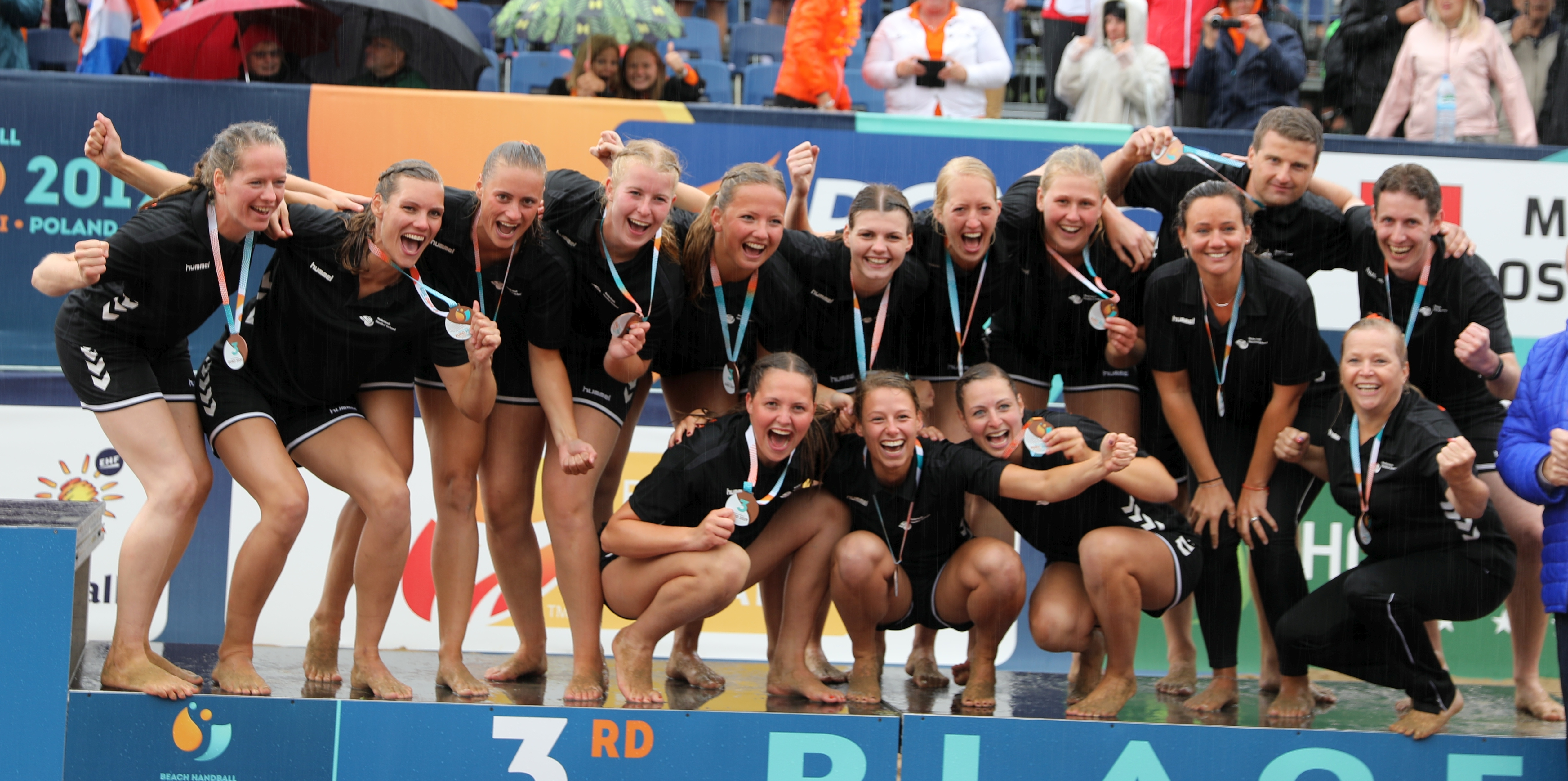 Beach handball Euro; Day 6: 7 July 2019 – Medal ceremony